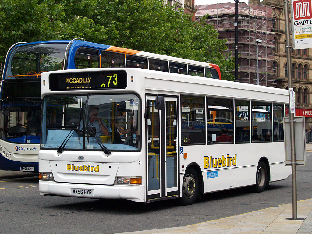 M.T.G. Dunstan (trading as Bluebird Bus & Coach) (formerly Hodgson of Barnard Castle) 21 MX56 HYR, a Dennis ‘Dart’ SLF built 2006 with a Plaxton ‘Mini Pointer’ B29F body on Piccadilly, Manchester with the 15:35 Manchester (Sackville Street) to Chadderton (Sportsman) via Newton Heath 73 service passing Stagecoach Manchester 19250 MX08 GNF, an Alexander Dennis ‘Trident’ built 2008 with Alexander Dennis ‘Enviro 400’ H47/33F body. Friday 25th July 2008